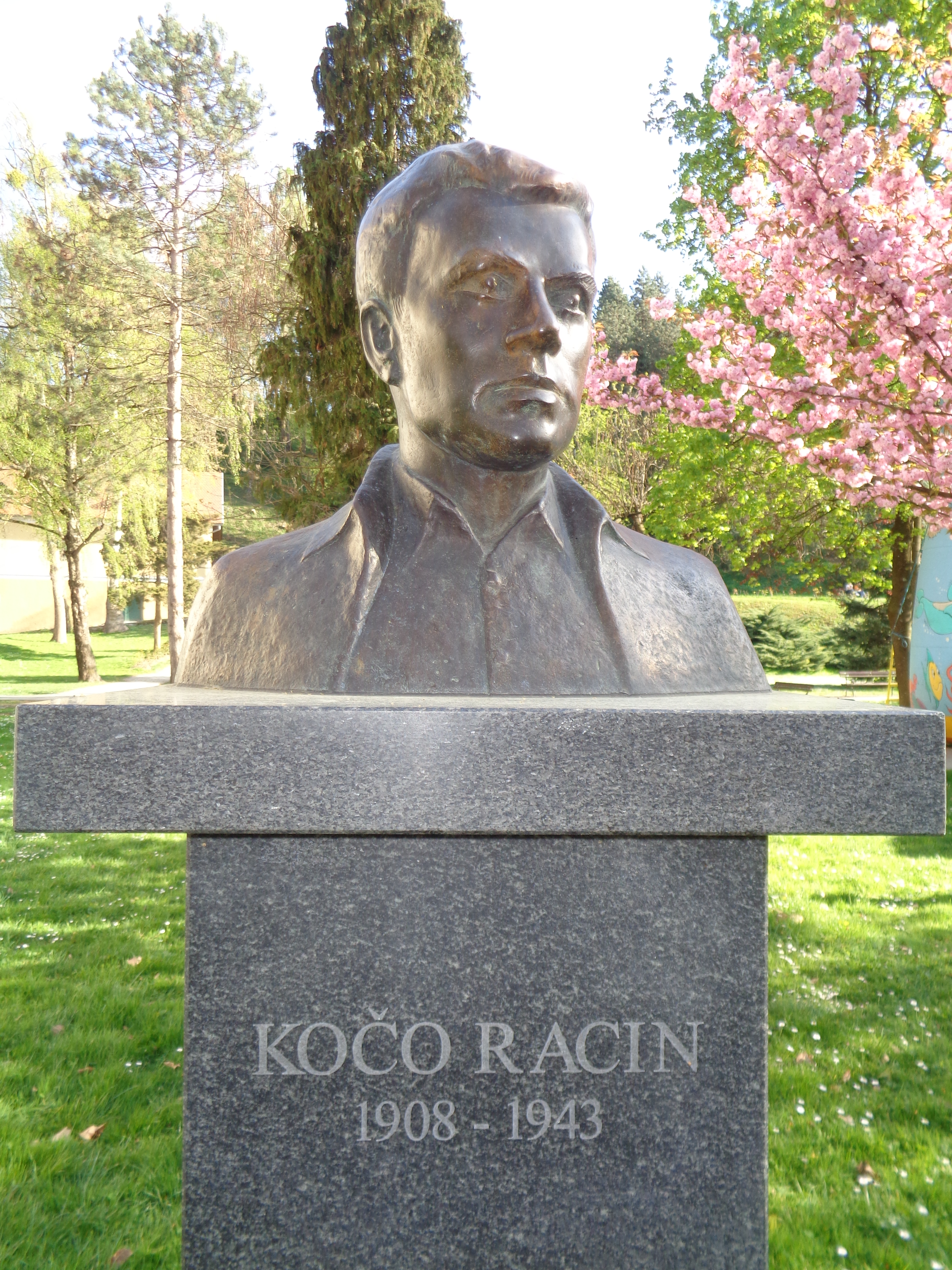 Kočo Racin (born Kosta Apostolov Solev), Macedonian poet - bust in Samobor, Croatia